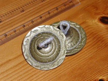 Zils - metal idiophone instruments. A pair of zils from the Khan el Khalili market in Cairo, with a ruler for scale